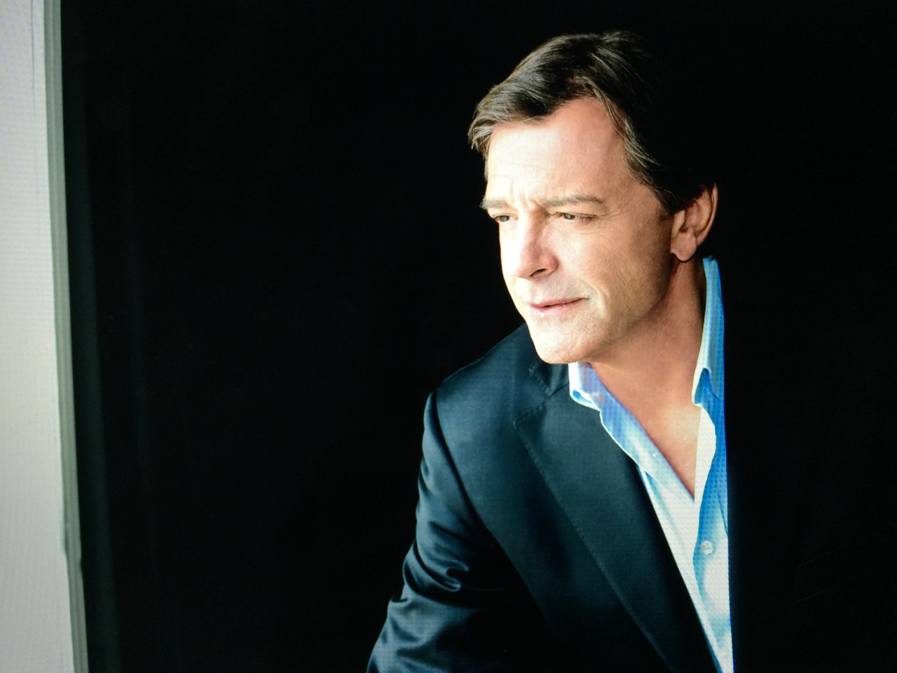 Silvio Werner Denz